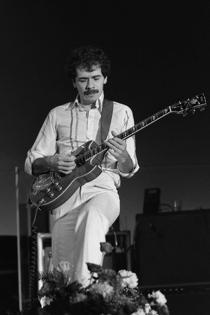 Carlos Santana 5 Carlos Santana: The inner secrets tour 1978 Groenenoordhallen Leiden The Netherlands